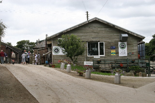 Lynher Dairy the home of Cornish Yarg. Lovely walks and interesting tour of the dairy, worth the long drive, you'll arrive just as you doubt you have taken the correct route. Yarg is sold throughout the world, but is produced solely in Cornwall by Lynher Dairies. Although the cheese has never been manufactured on a mass scale, it has fans all over the world. It was first made by the Grays at Withiel and from 1984 to 2006 at Netherton Farm near Upton Cross.